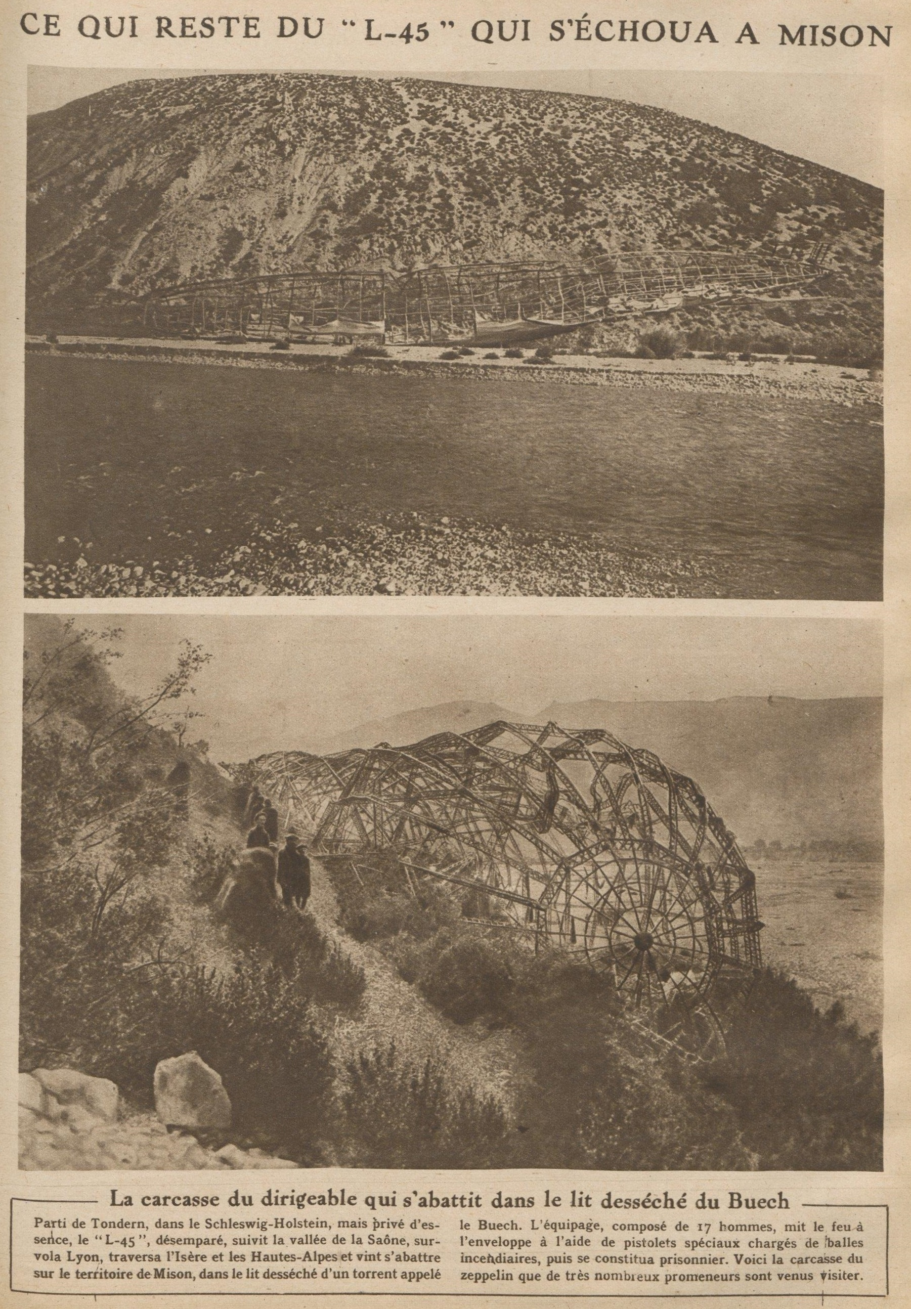 Photographs of the German airship L-45 fell in the Hautes-Alpes in the town of Mison returning from a bombing raid on England. Photographs published in the weekly Le Miroir November 4, 1917.